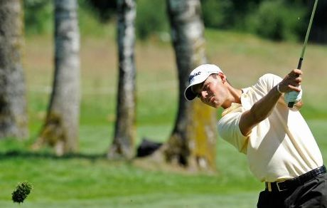 German's Martin Kayman win BMW Open